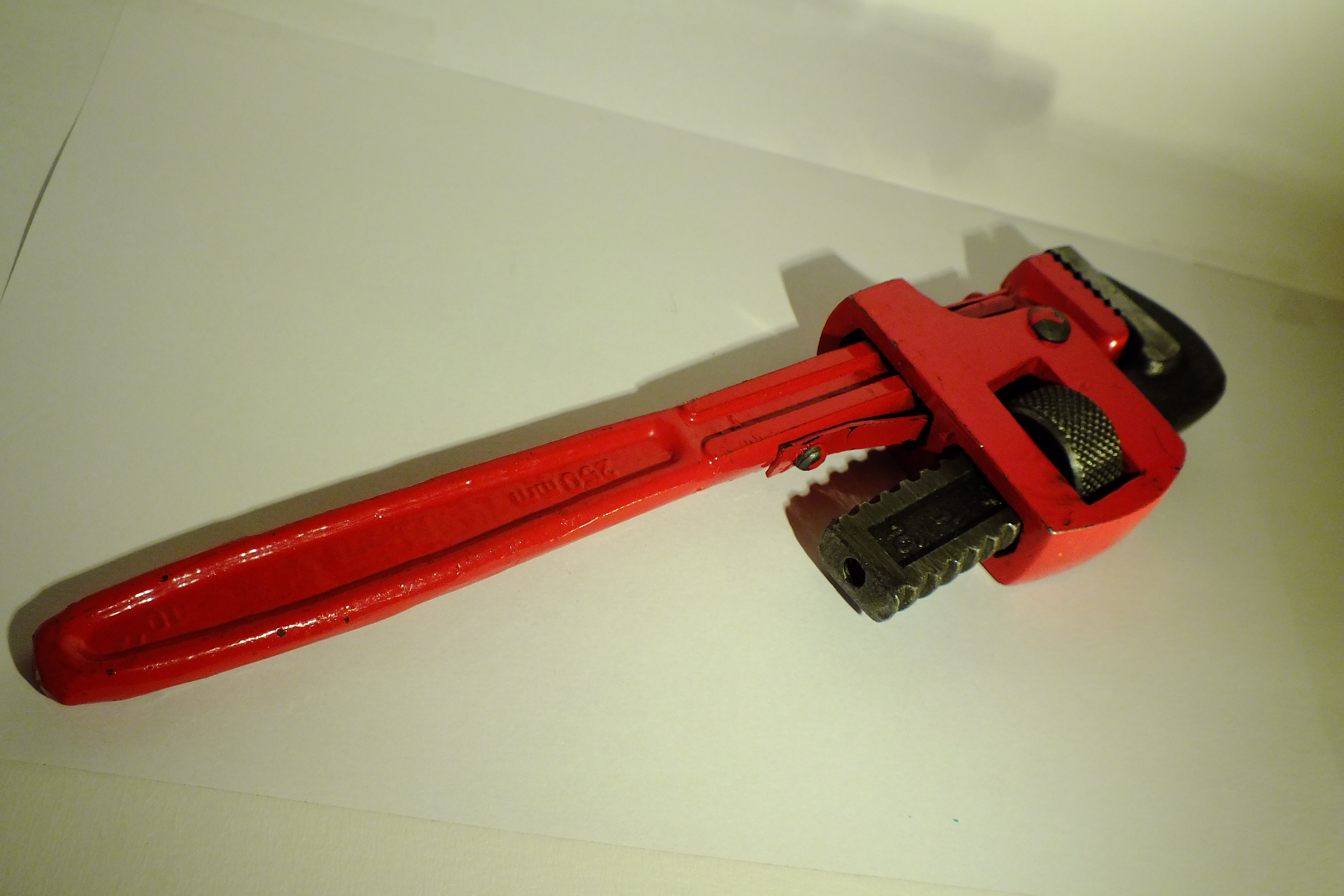 This is a pipe wrench